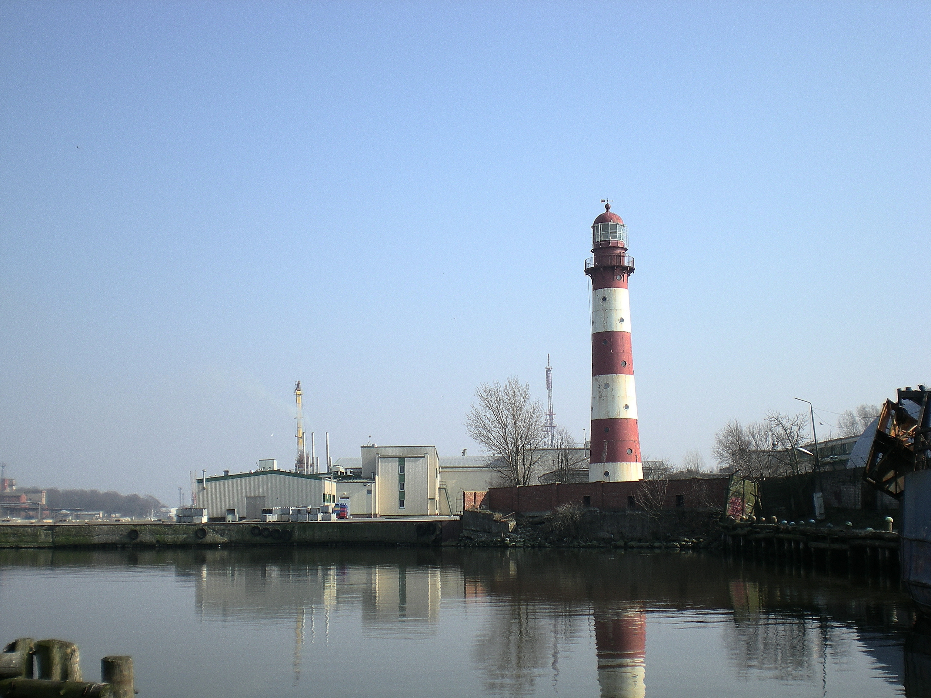 Liepaja lighthouse and port